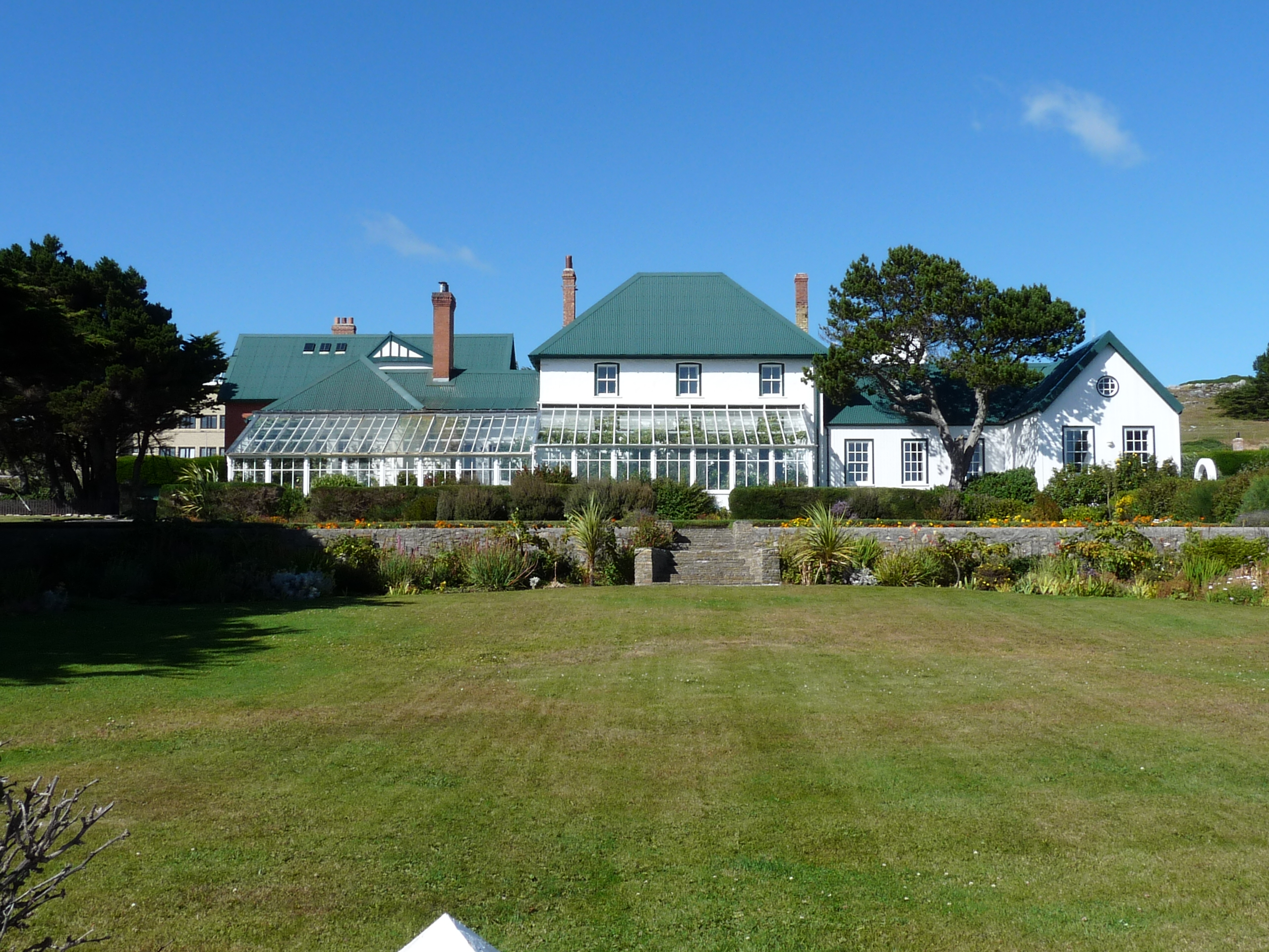 Governor's House 02 - Copie (2)